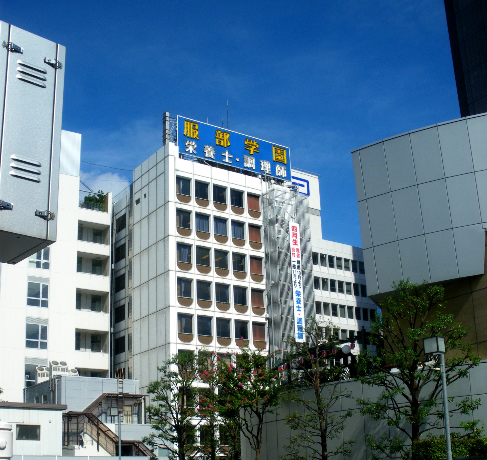 Hattori Nutrition College(Sendagaya,Shibuya,Tokyo)